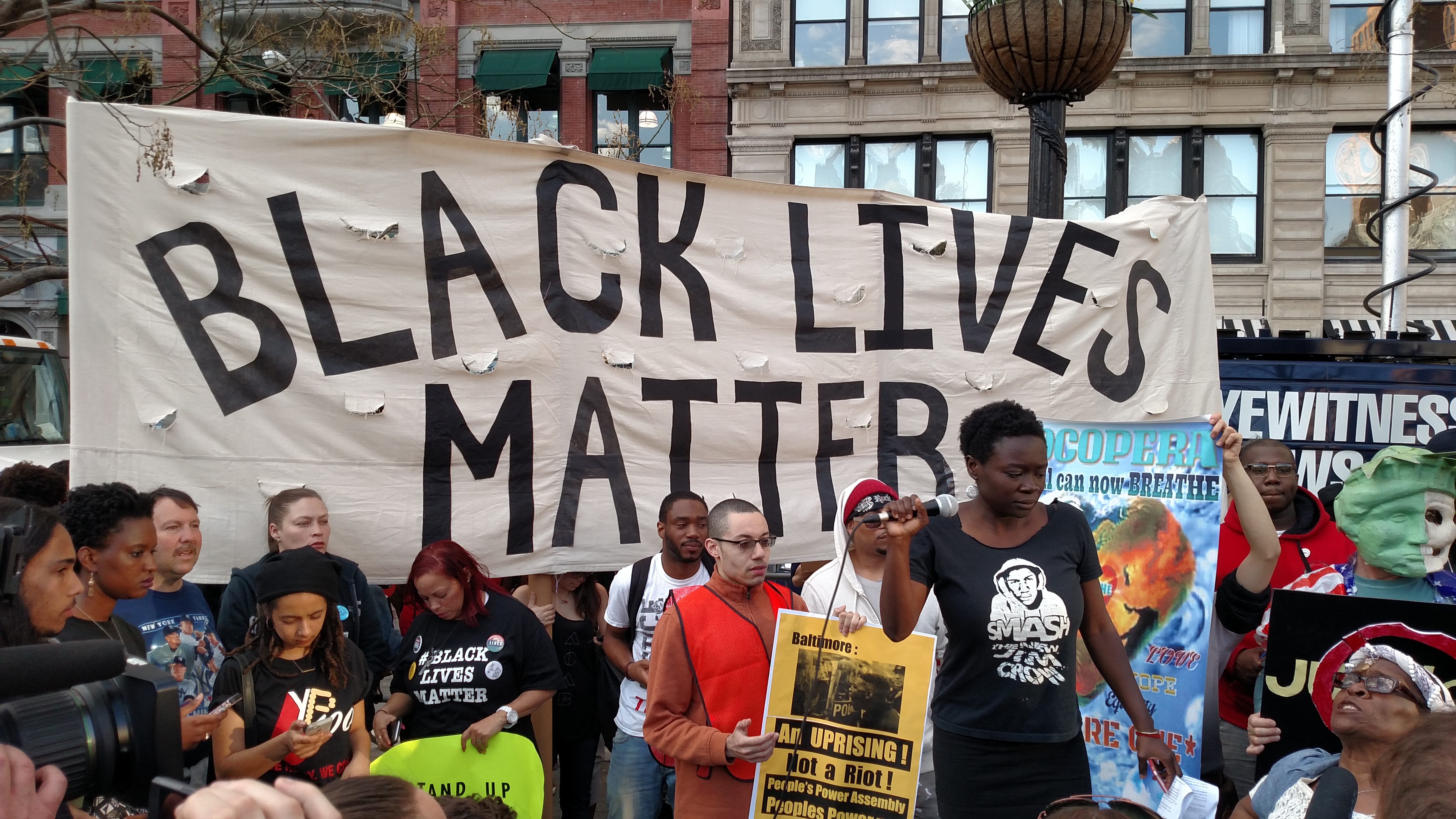 'Rally at Union Square at 6pm(29th April 2015) on the North Side of the Square (on 17th street) to show the people of Baltimore that we stand in solidarity with them and with their resistance because their resistance is for justice and their justice is our justice.'(from Millions March Facebook event page)